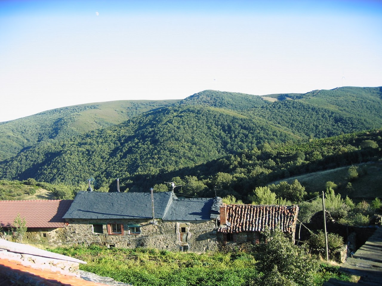 Houses in the neighborhood of the church in Rosales, Riello (Spain), with Mount Zurragón, Carbaín, Pico de las Gallinas, and Geijo Blanco in the background